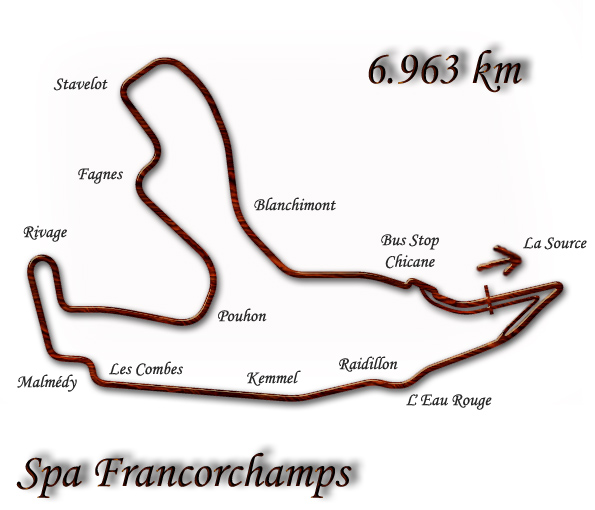 Diagram of the Spa Francorchamps circuit used for Formula One Belgian Grands Prix 2002